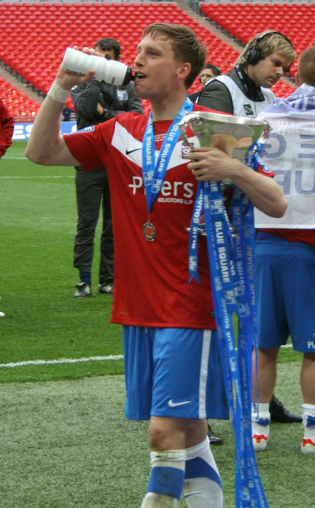 Danny Parslow after playing for York City against Luton Town at Wembley Stadium, London on 20 May 2012